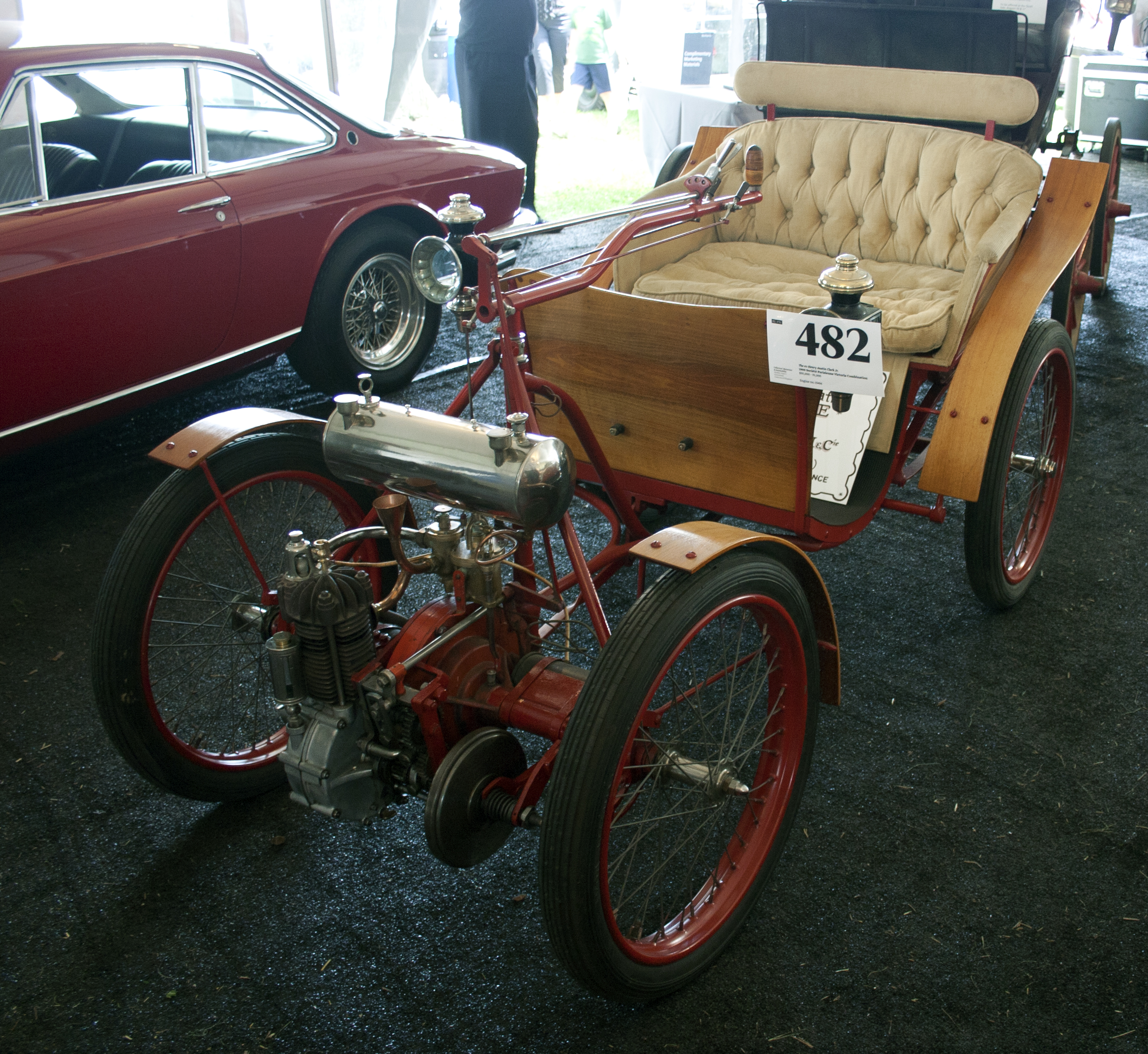 circa 1900 Société Parisienne Victoria Combination, engine number 15494 at the June 3, 2012 Bonham's Auction at the Greenwich Concours d'Elegance. See description of the rear view of same car for more information.